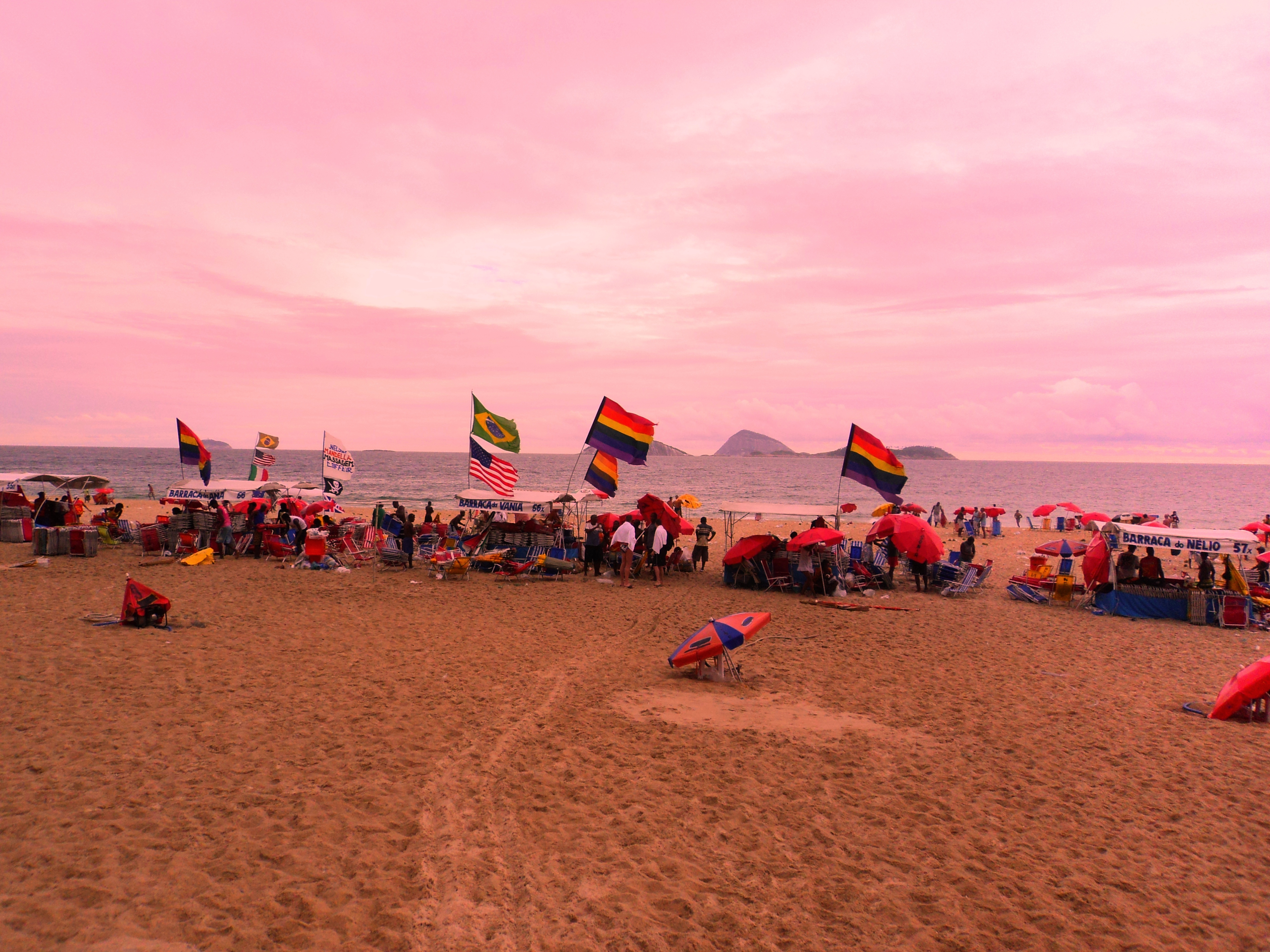 LGBT area in Ipanema Beach, Rio de Janeiro, Brazil.